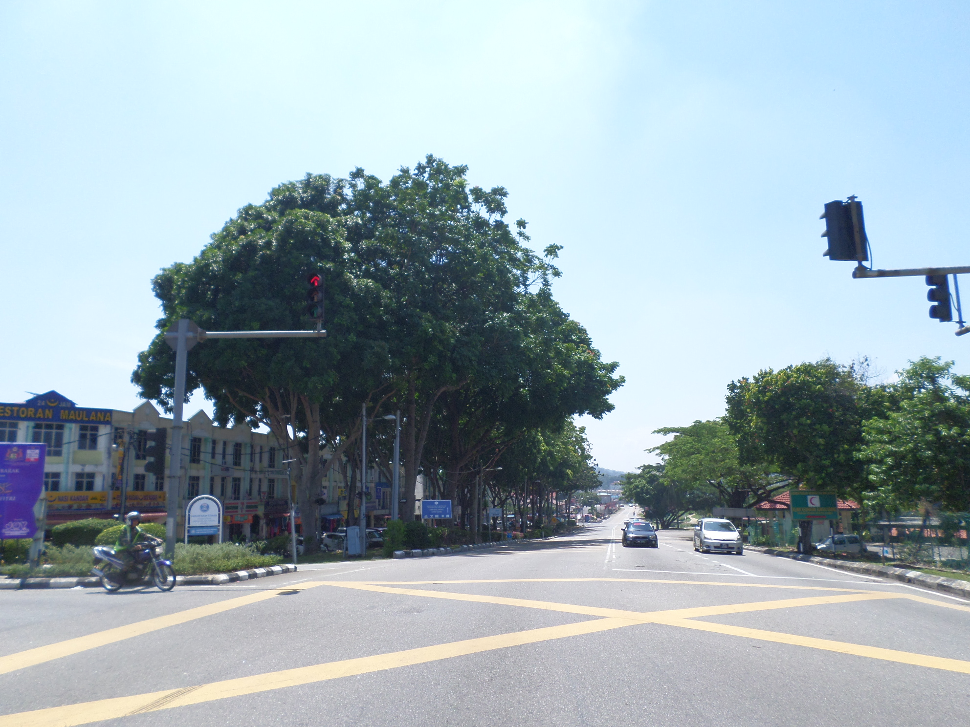 Sungai Udang, Central Malacca, Malacca, MalaysiaBahasa Melayu: Sungai Udang, Melaka Tengah, Melaka, Malaysia